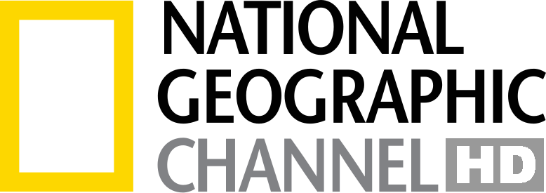 logo of National Geographic Channel (Canada)